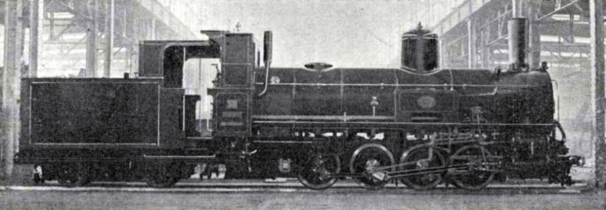 Niederösterreichische Landesbahnen No. 50, Mh.1 (later ÖBB 399.01), Krauss/Linz works photograph